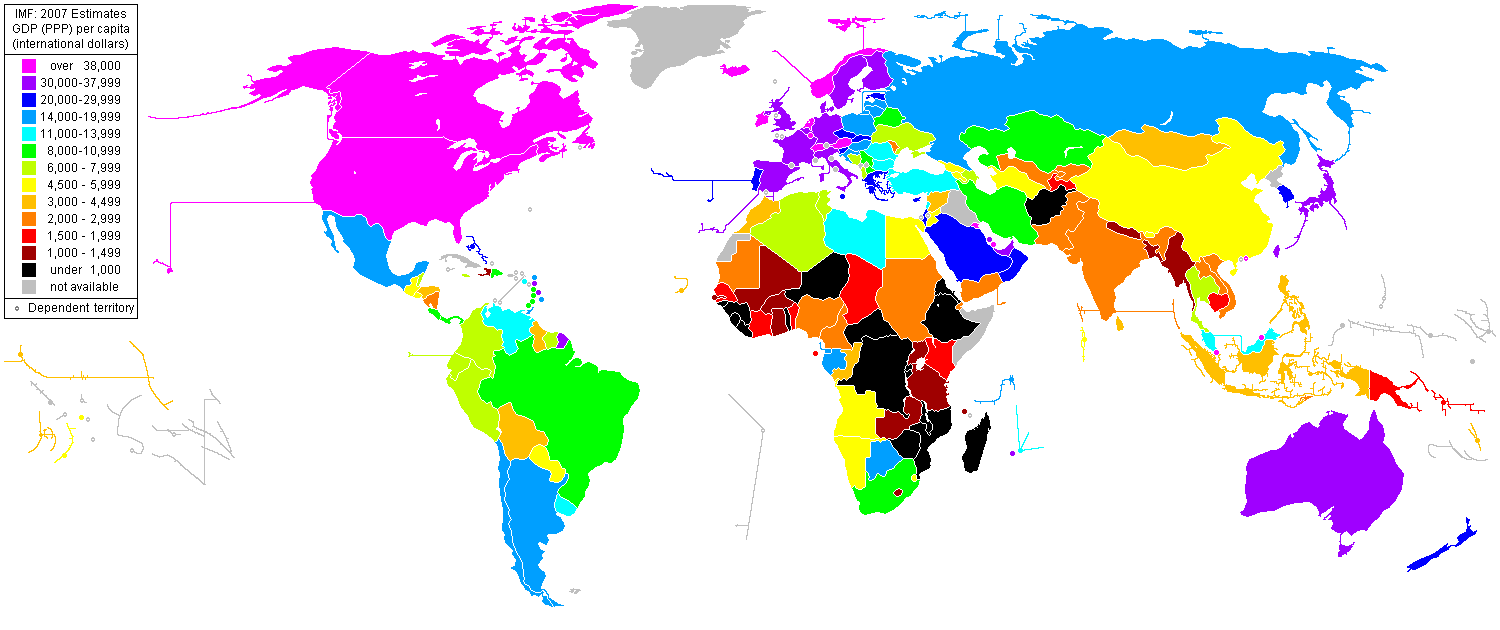 World map showing 2007 estimates about GDP (PPP) per capita (international dollars) over 38,000 30,000-37,999 20,000-29,999 14,000-19,999 11,000-13,999 8,000-10,999 6,000-7,999 4,500-5,999 3,000-4,499 2,000-2,999 1,500-1,999 1,000-1,499 under 1,000 not available